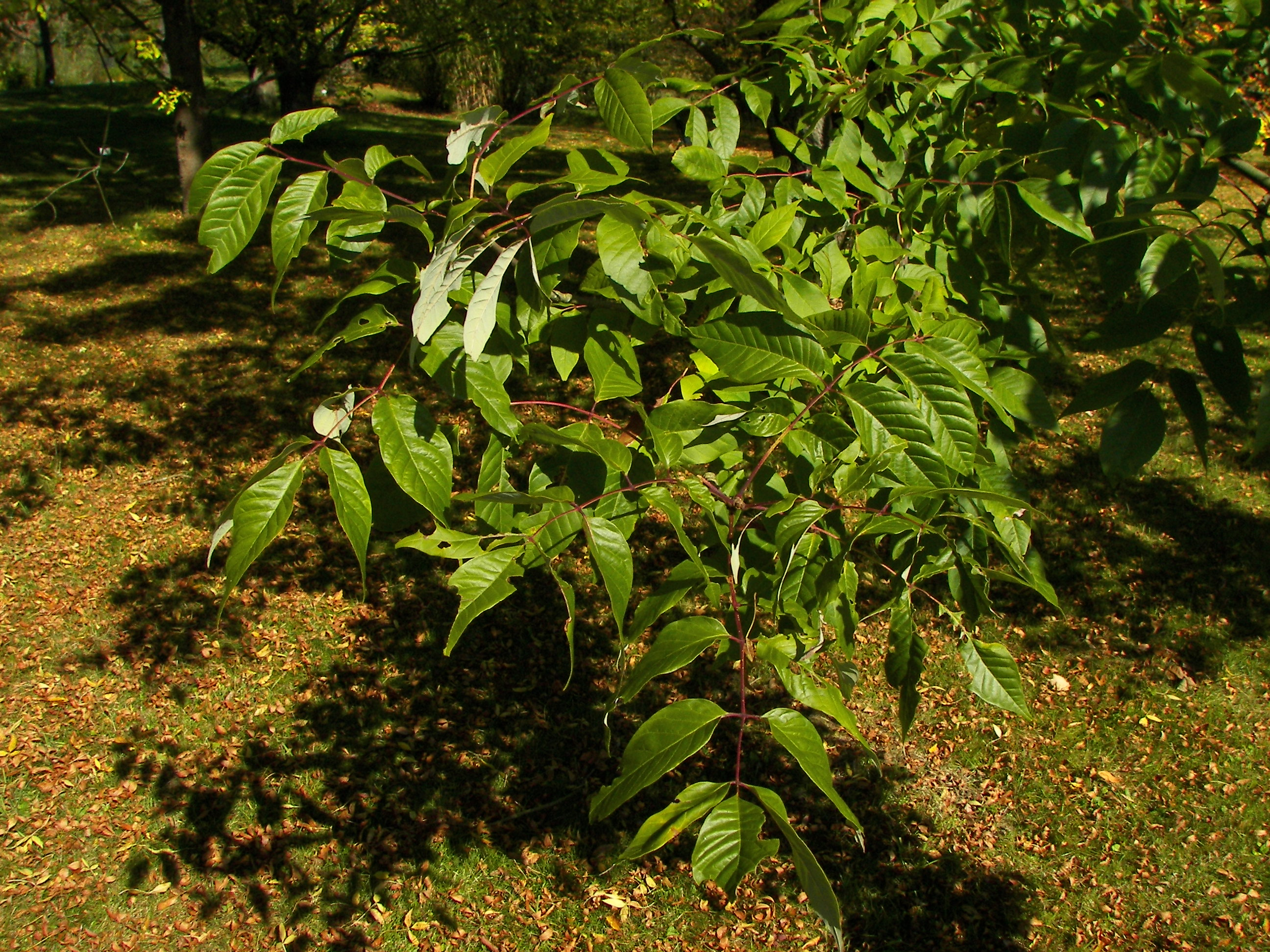 White Ash (Fraxinus americana) in the New Botanical Garden Marburg, Hesse, Germany